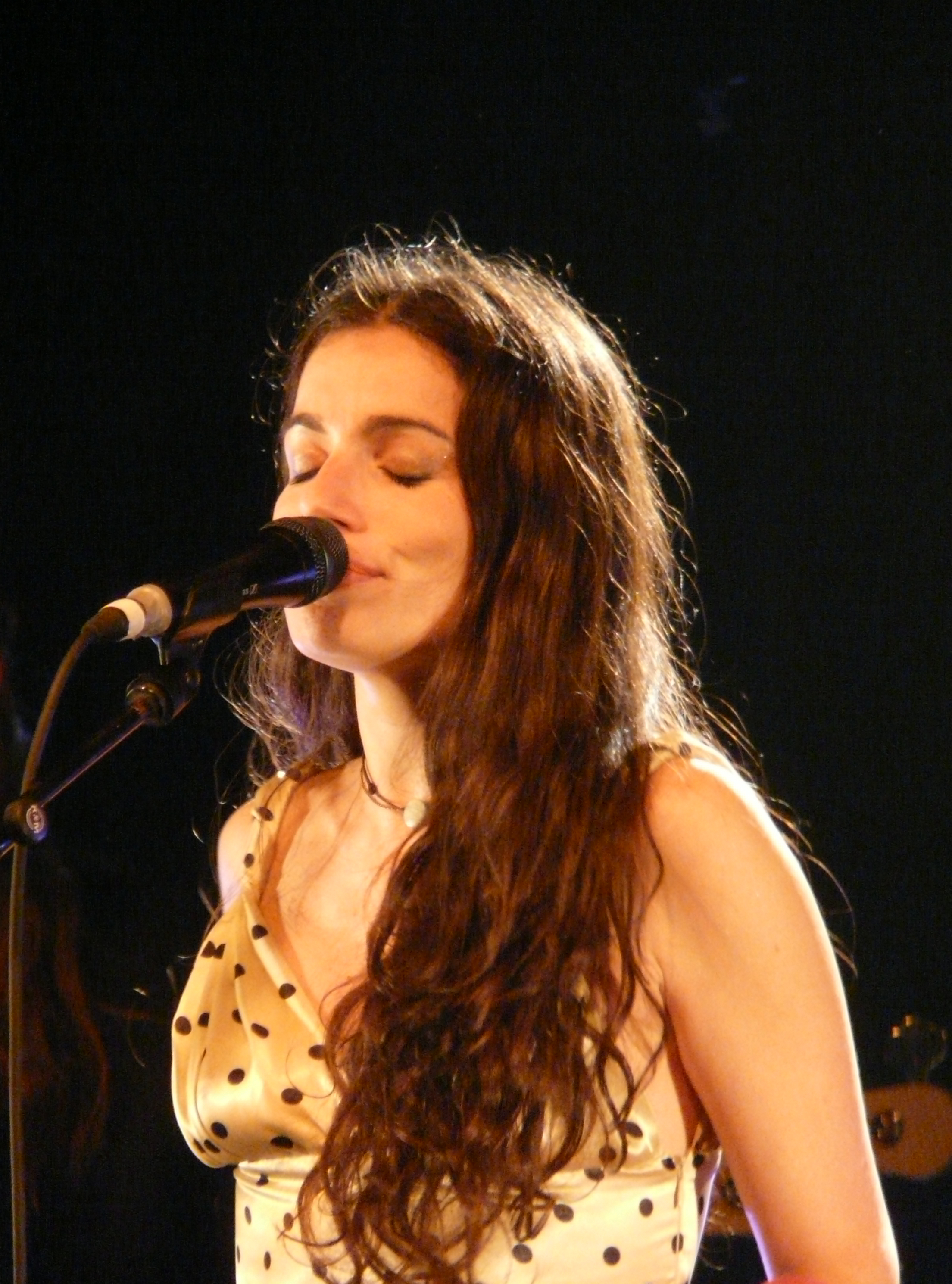 Yael Naim, French-Israeli singer, at Club 106, Rouen, France.